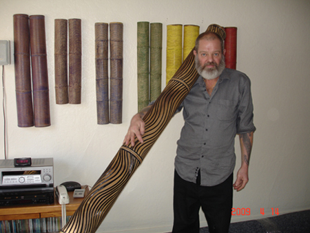 Darrel Mortimer in his San Francisco studio holding an eight foot long bamboo chillum pipe which has been decorated with the artist's "history of tattoo".